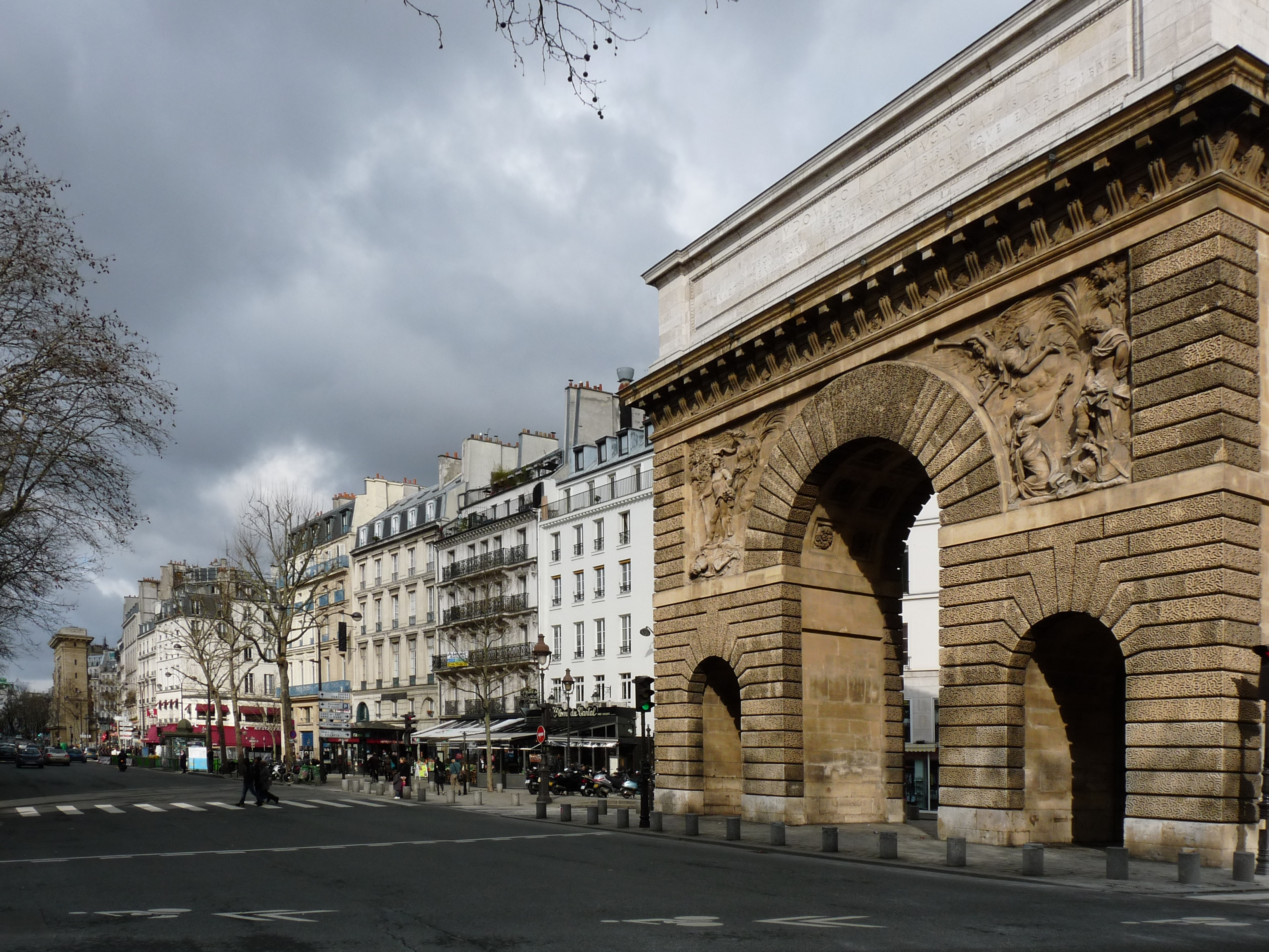 Boulevard Saint-Denis in Paris, looking at its north side. In the rear, at the left of the picture, the Saint-Denis gate. In the foreground, at the right of the picture, the Saint-Martin gate.